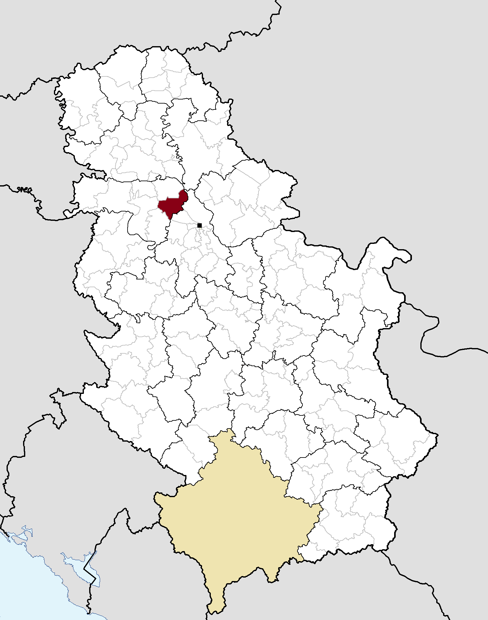 Municipal location in Serbia